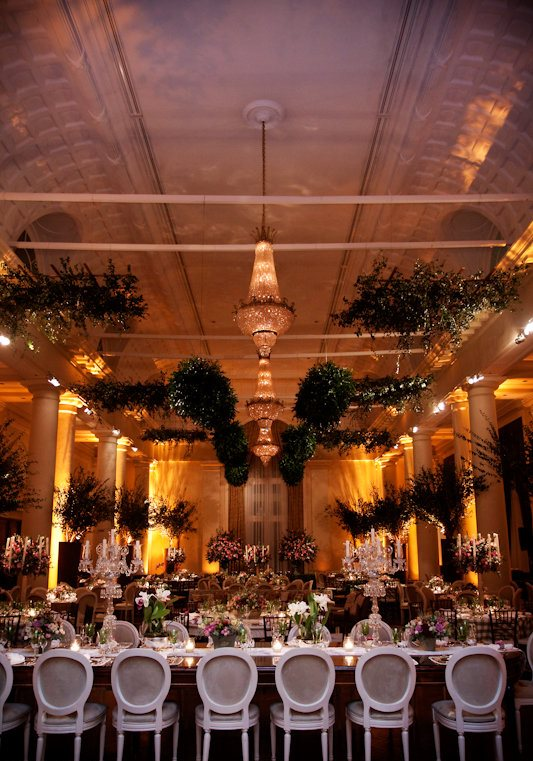 Copyright